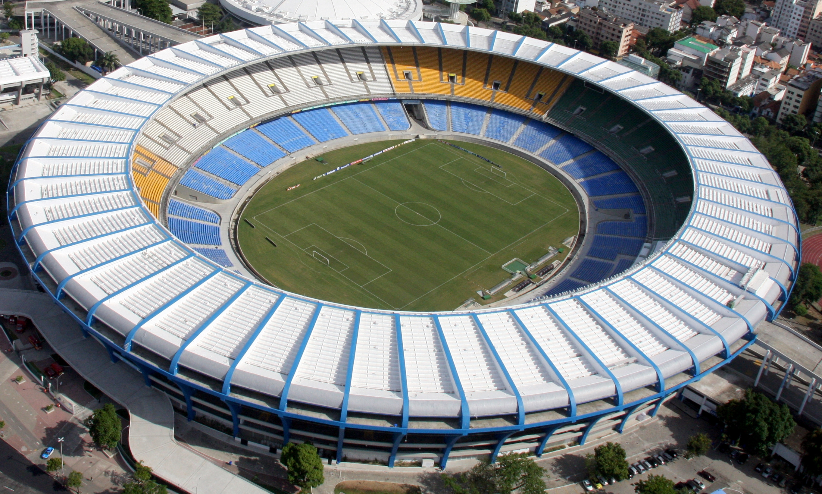 Aerial view of the Maracanã Stadium